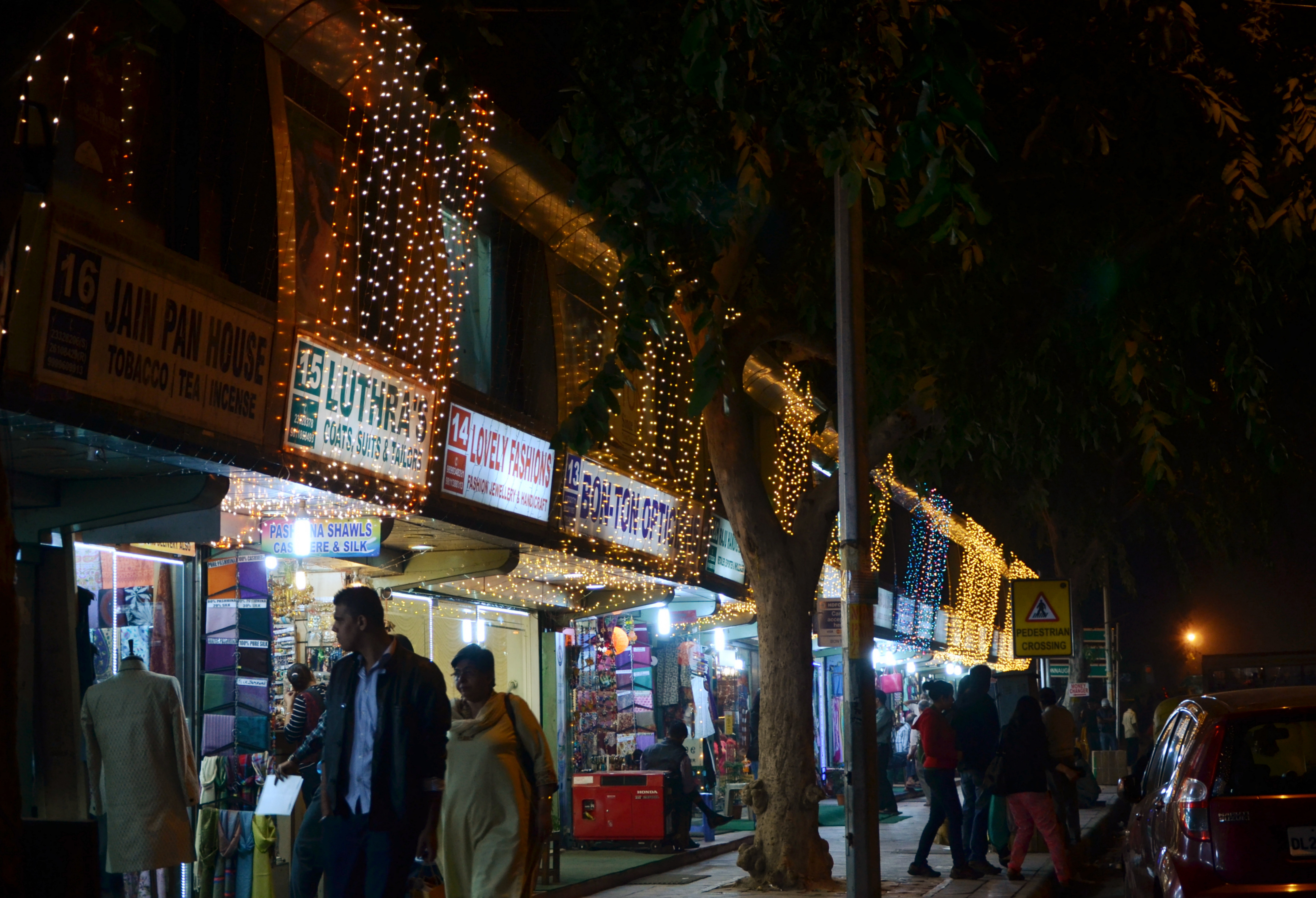 Night view of Janpath street, 2012.